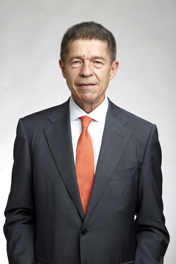 Joachim Sauer is a German quantum chemist and professor at the Humboldt University of Berlin Attribution: The Royal Society